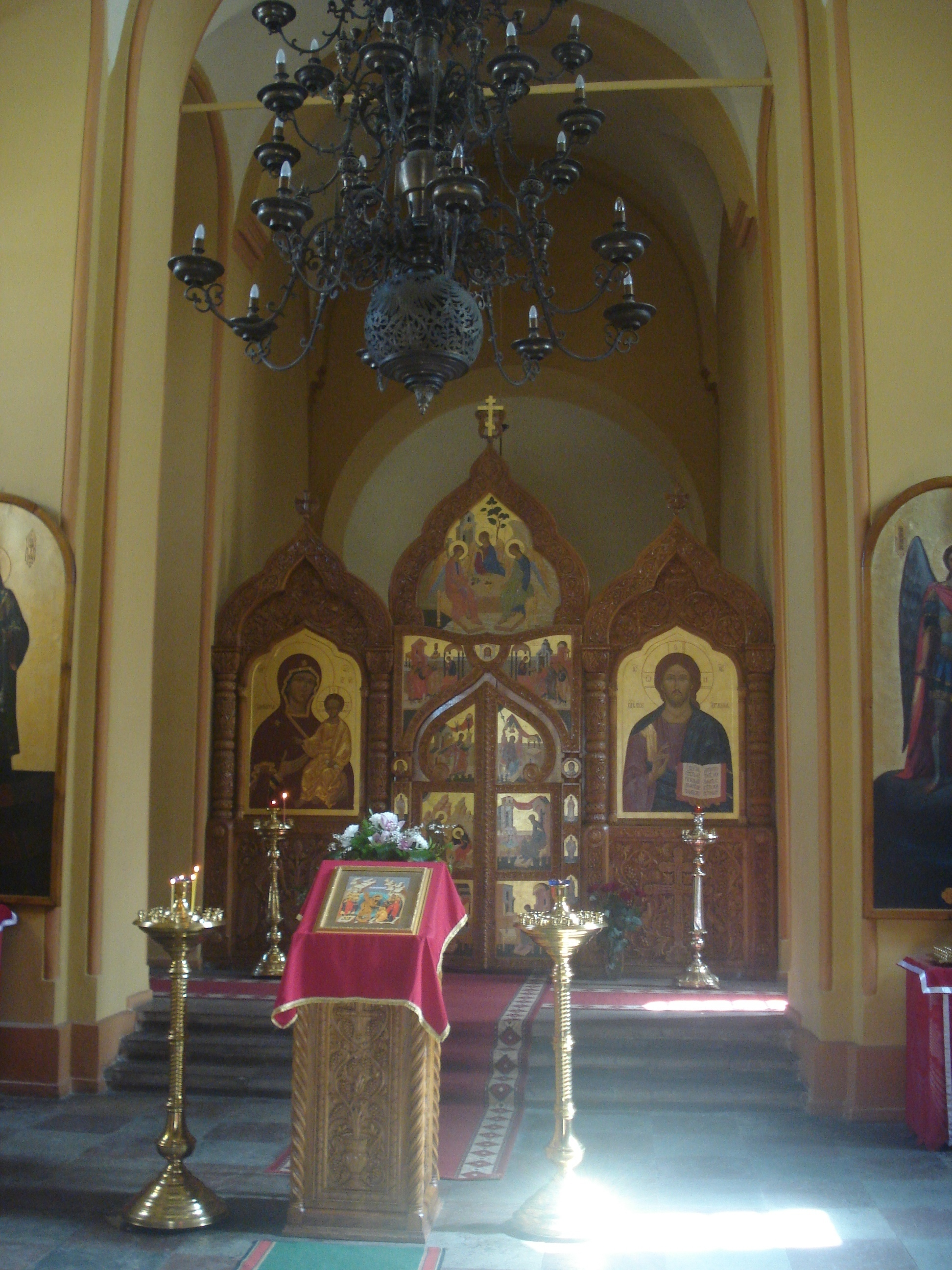 Russian Orthodox church of St. Parasceve (Didžioji g. 2). Iconostasis